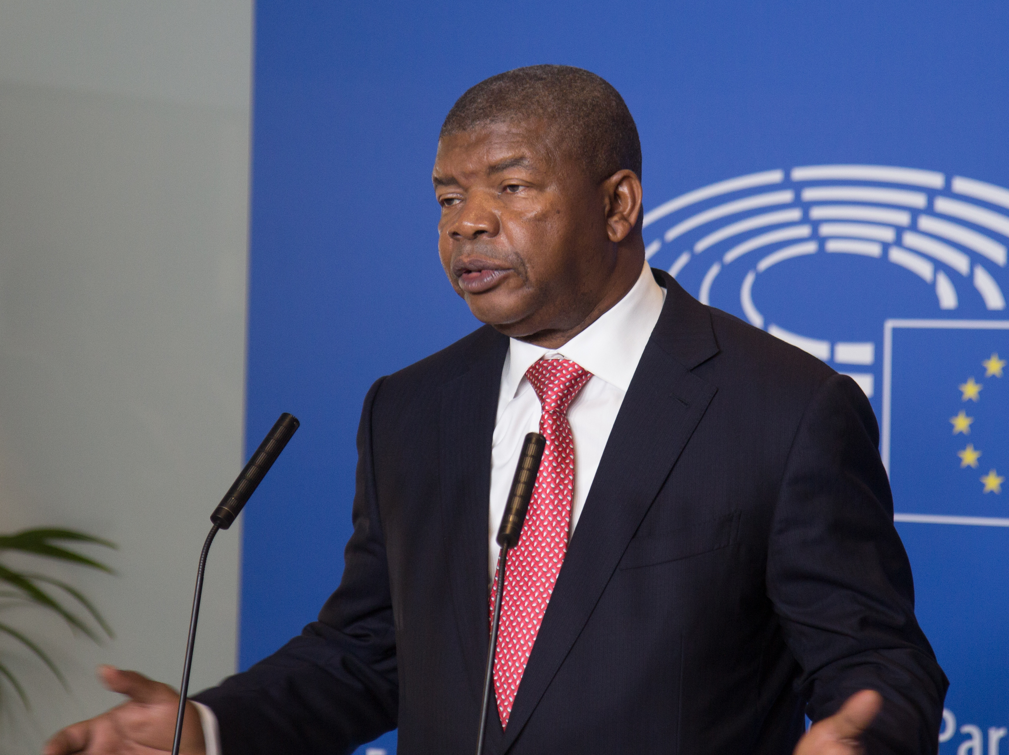 João Manuel Gonçalves Lourenço (President of Angola) at the European Parliament in Strasbourg.